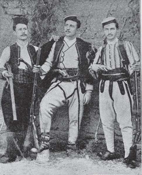 Portrait of Dame Gruev, Grigor Popev and Alexander Hadzhipanov - IMARO revolutionaries